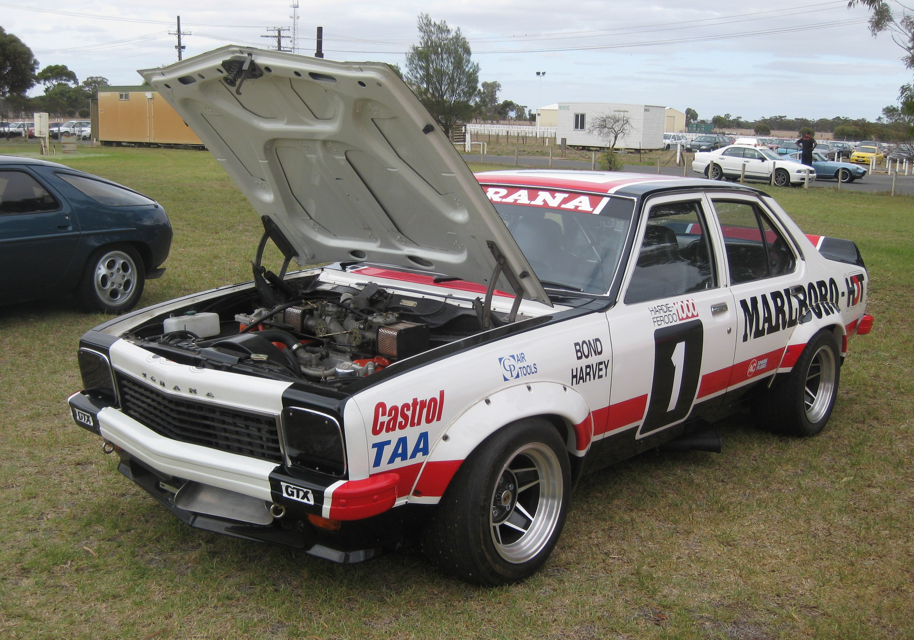 A race replica of the Holden LH Torana SL/R 5000 L34 which was driven to second place in the 1976 Hardie-Ferodo 1000 by Colin Bond and John Harvey